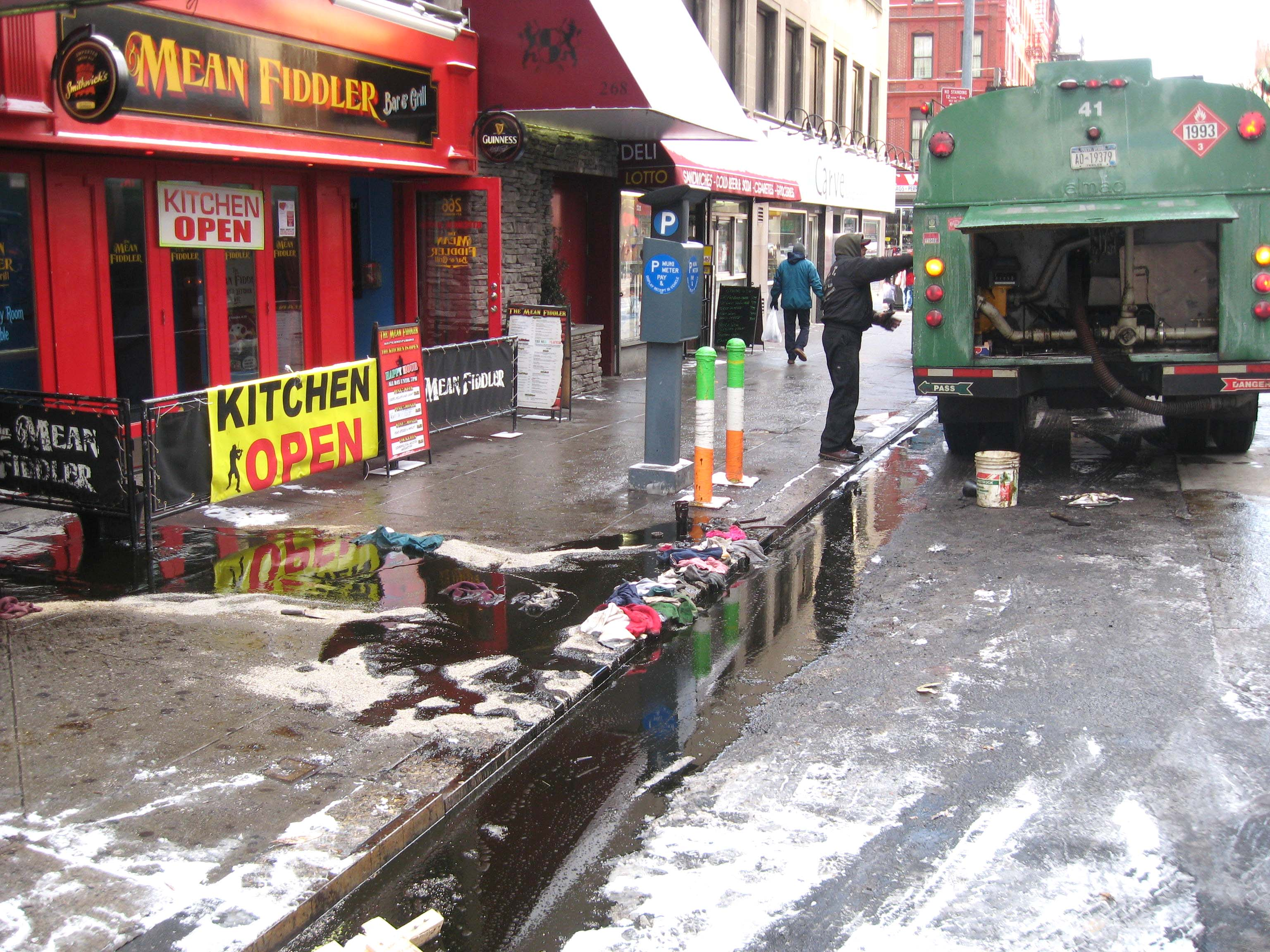 Looking west towards Eighth Avenue (Manhattan) at a little oil spill on West en:47th Street (Manhattan) on a cloudy afternoon